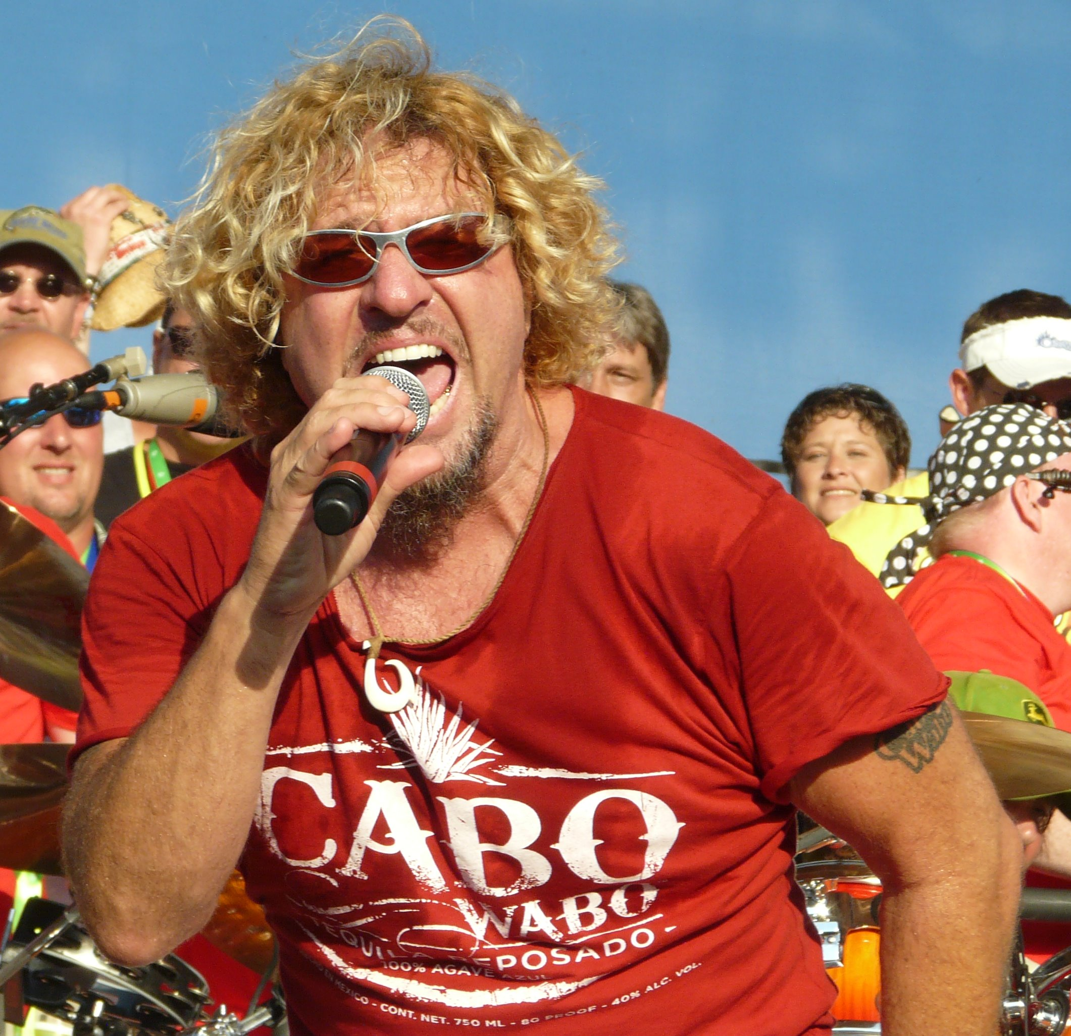 Sammy Hagar at the Moondance Jam 2008 in Walker, Minnesota on July 10, 2008